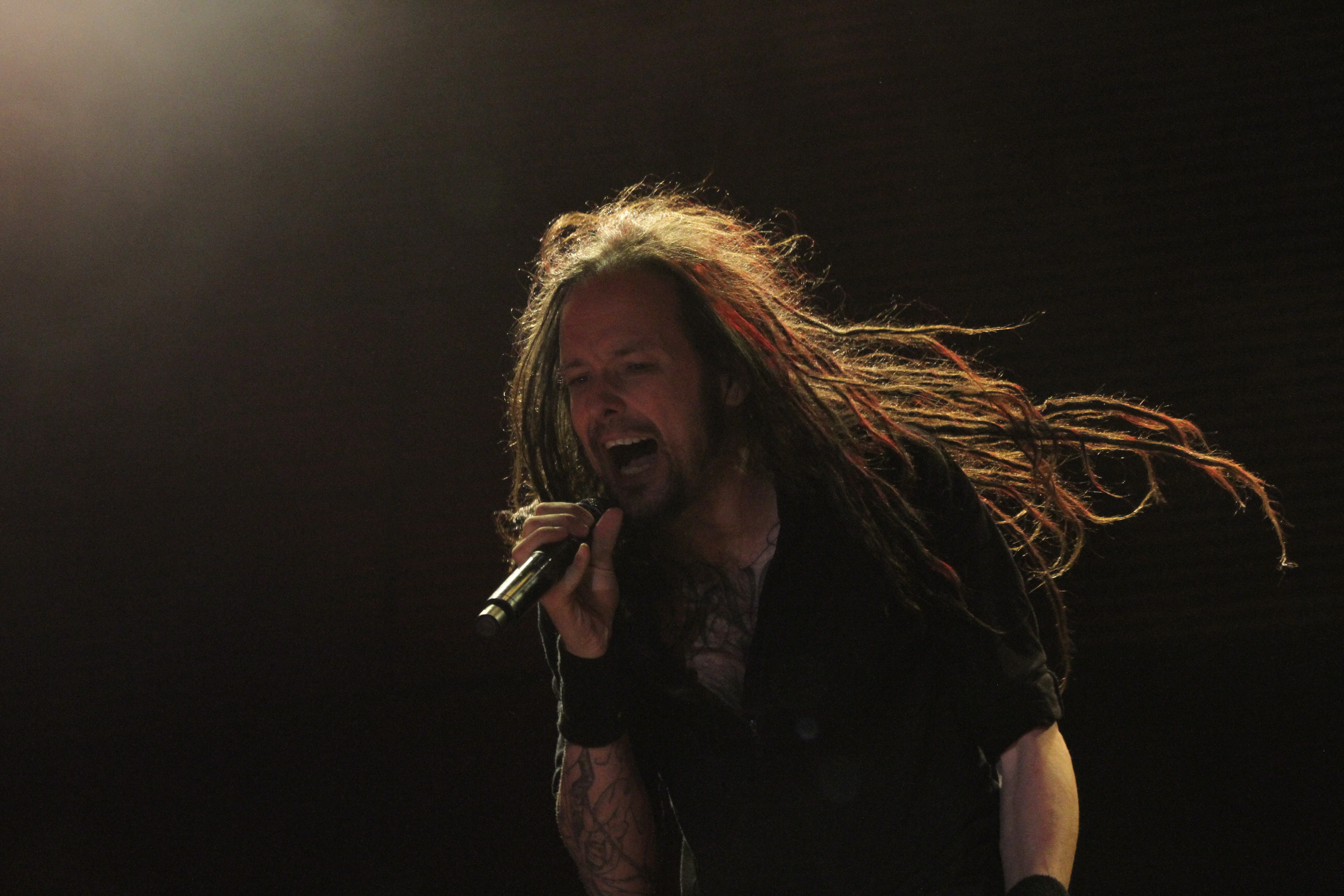 Posted via email from Globalite Magazine